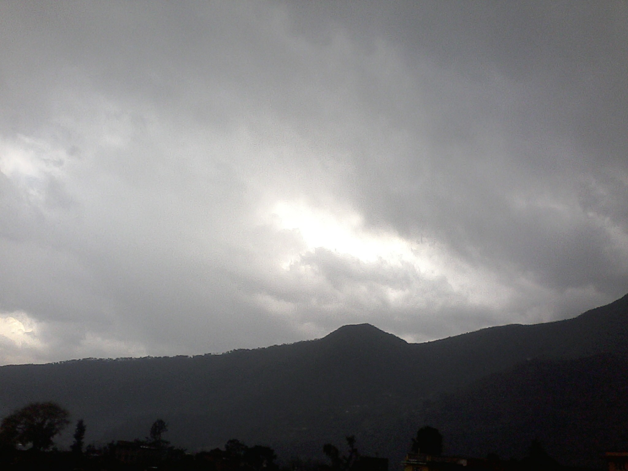 View capture while raining